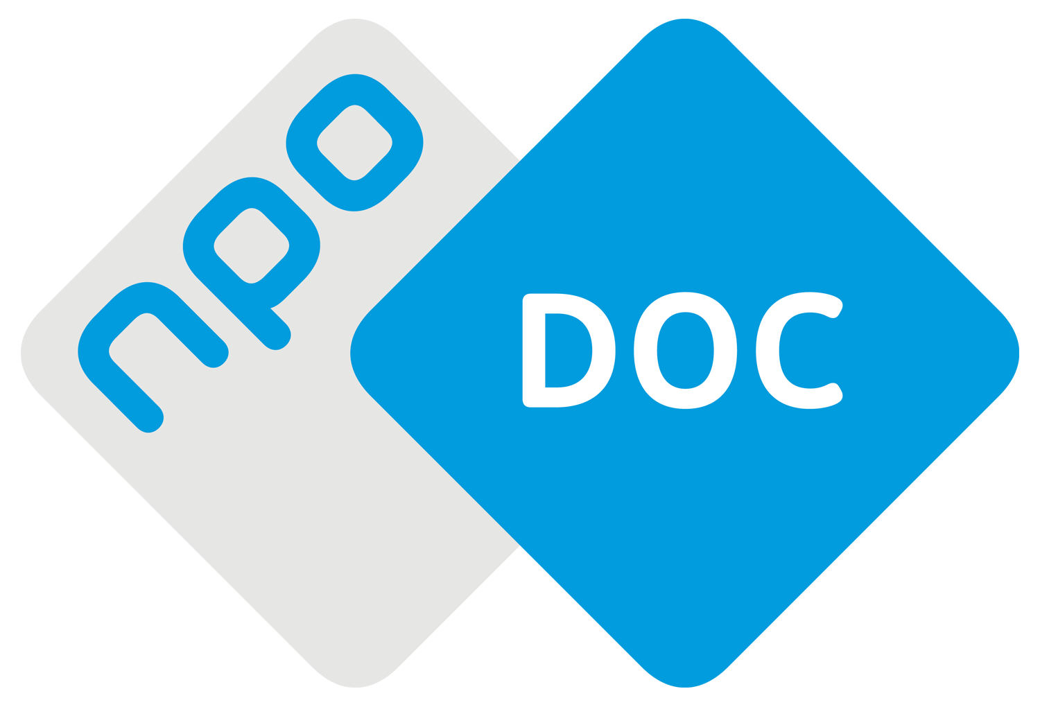 Logo of NPO Doc